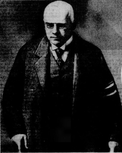 Dr. Georg Escherich, Bavarian master forester and head of the Bavarian Einwohnerwehren